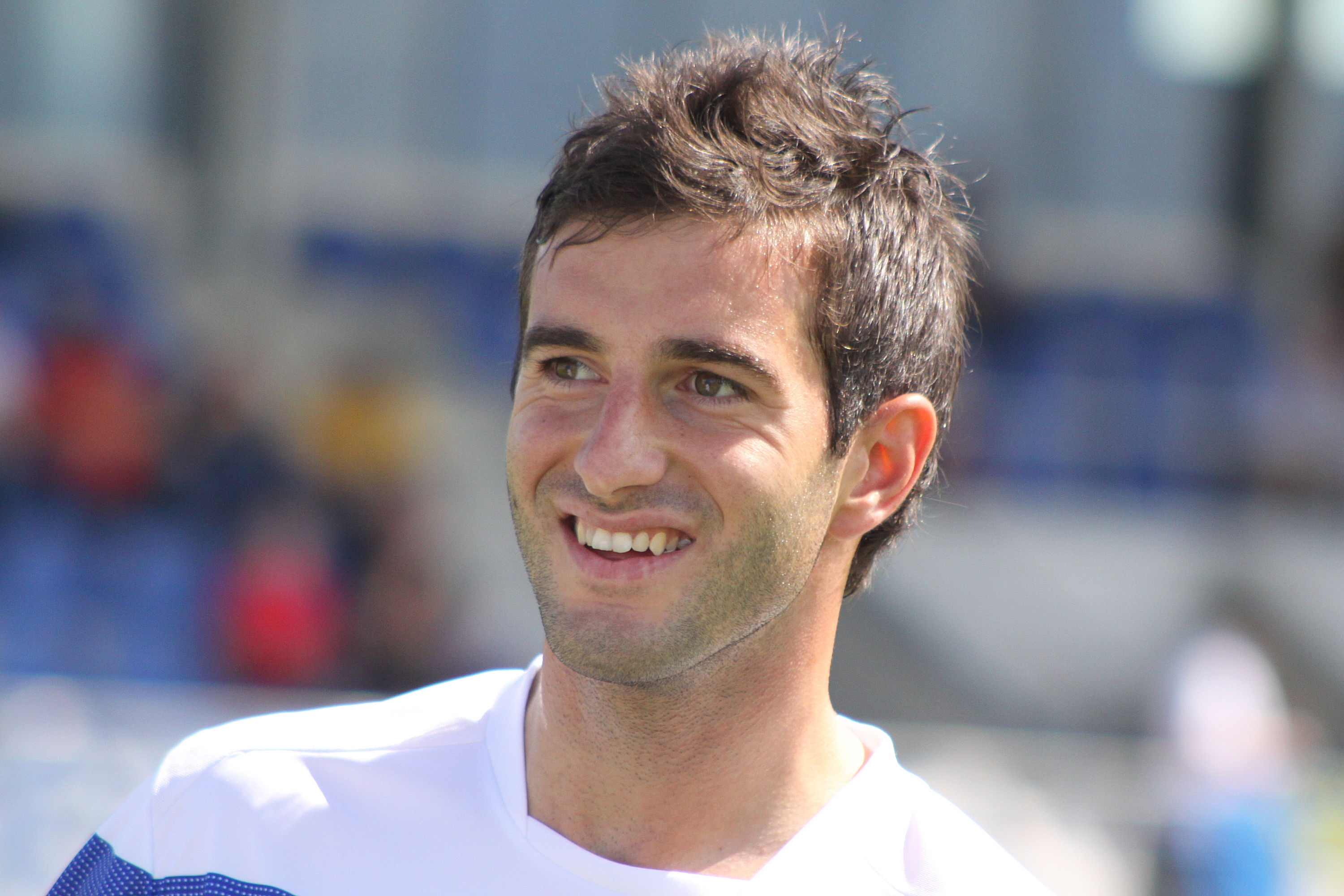 Maximilian Nicu - Hertha BSC Berlin (2)